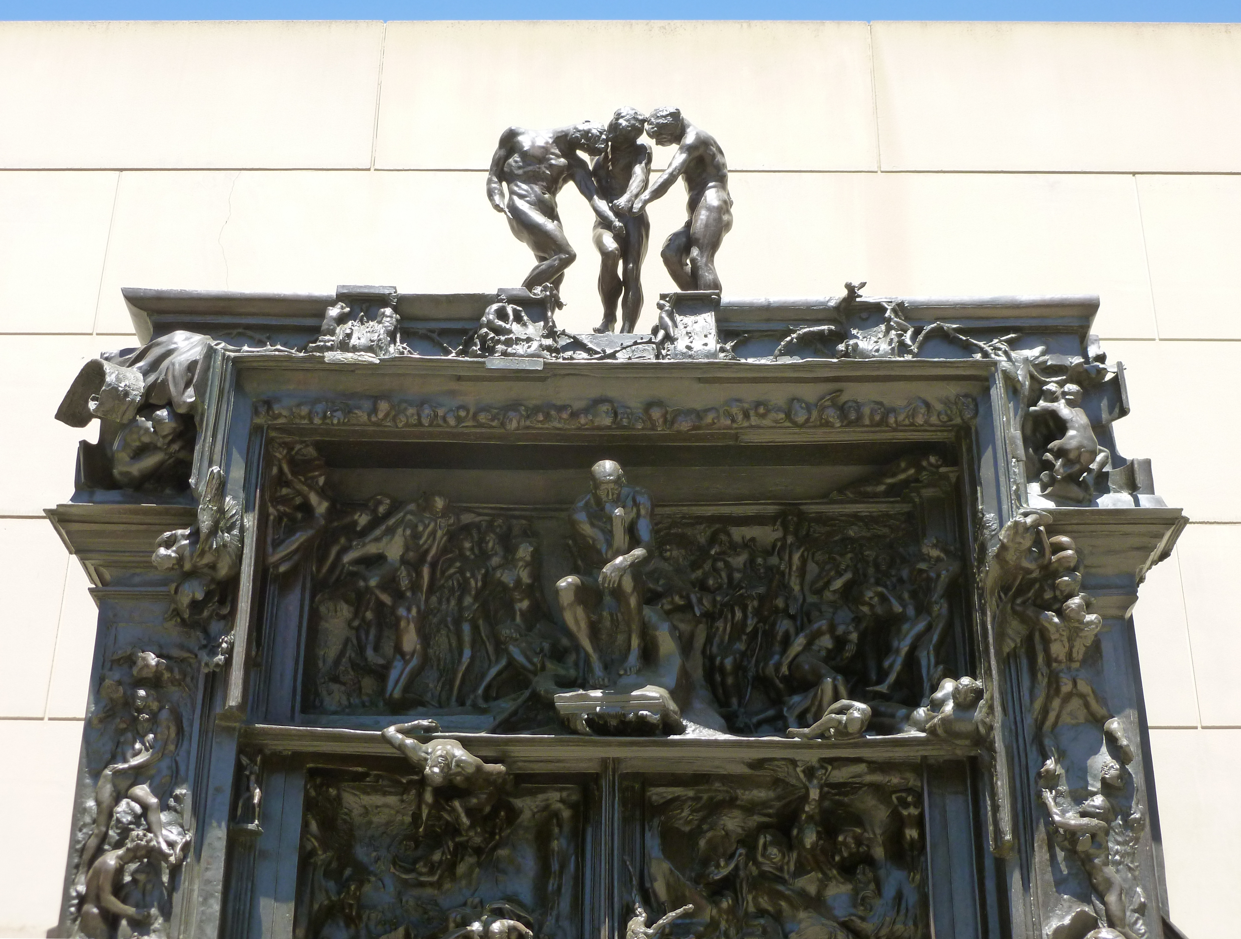 Gates of Hell sculpture by Auguste Rodin. Located at the B. Gerald Cantor Rodin Sculpture Garden at Stanford University. Details of top of sculpture shown.